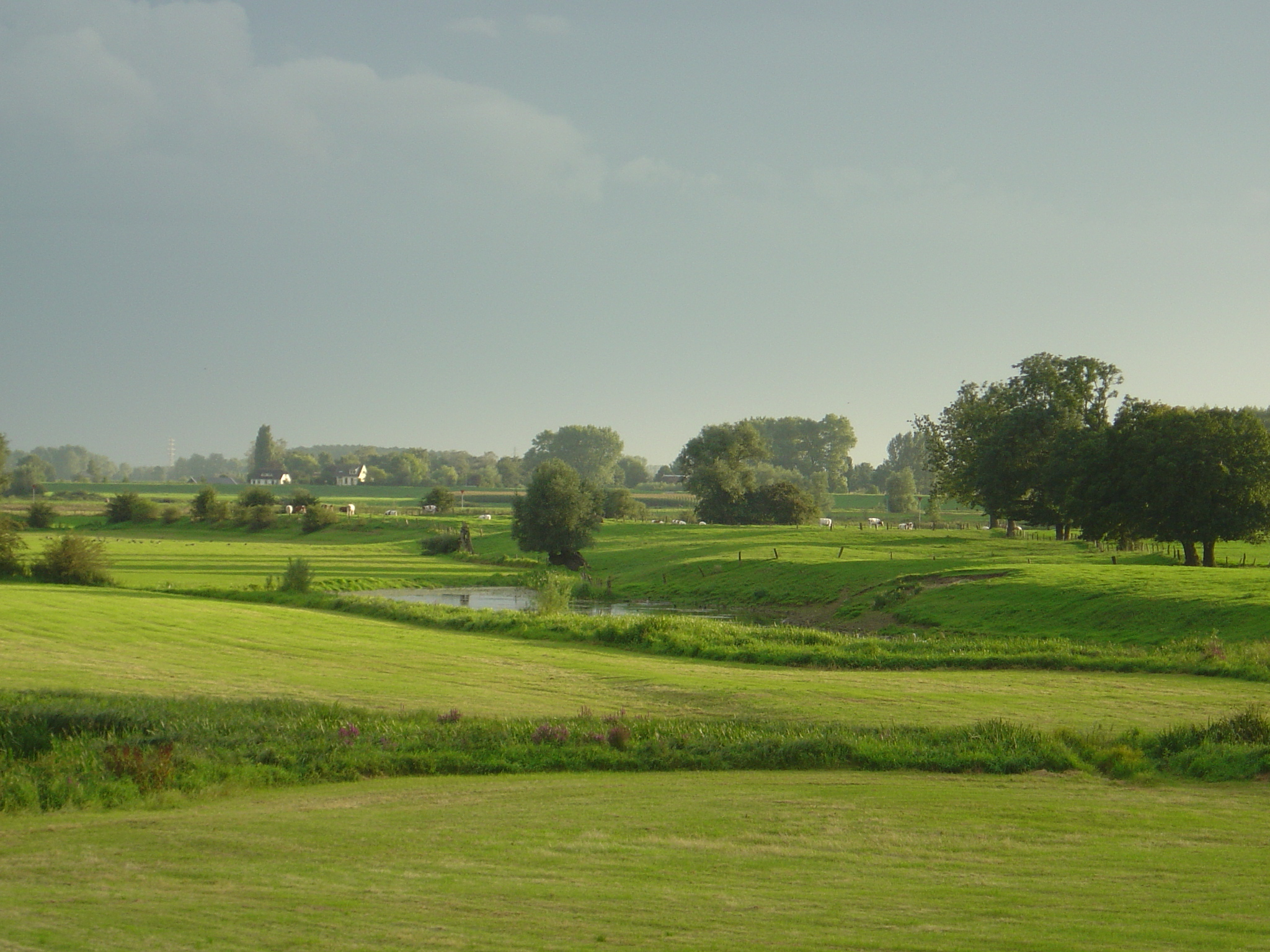 Uiterwaarden (reservoir river beds of the river IJssel at Olst, the Netherlands